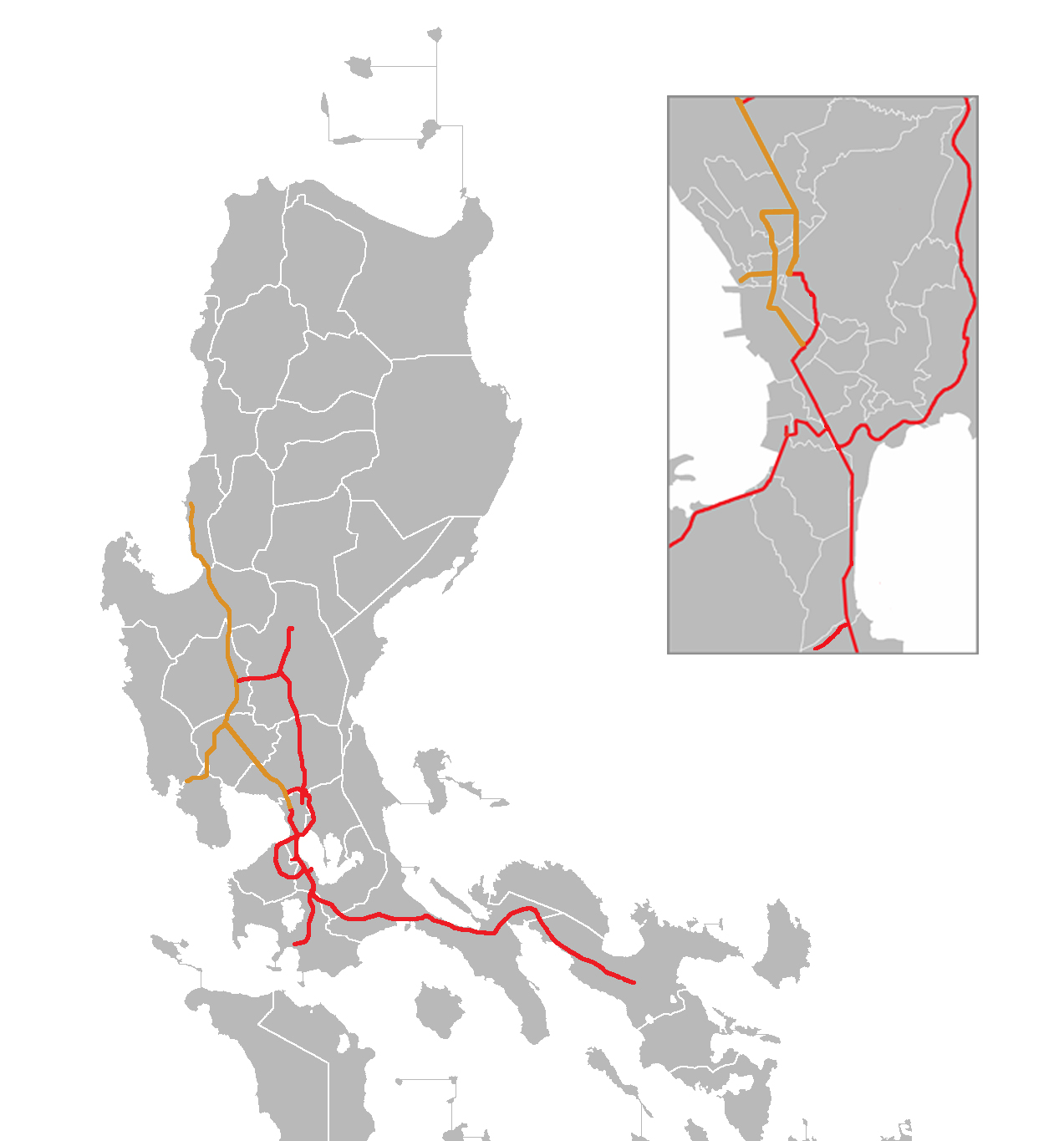 A map of the E1 expressway of the Philippines. Includes NLEX, SCTEX, and TPLEX